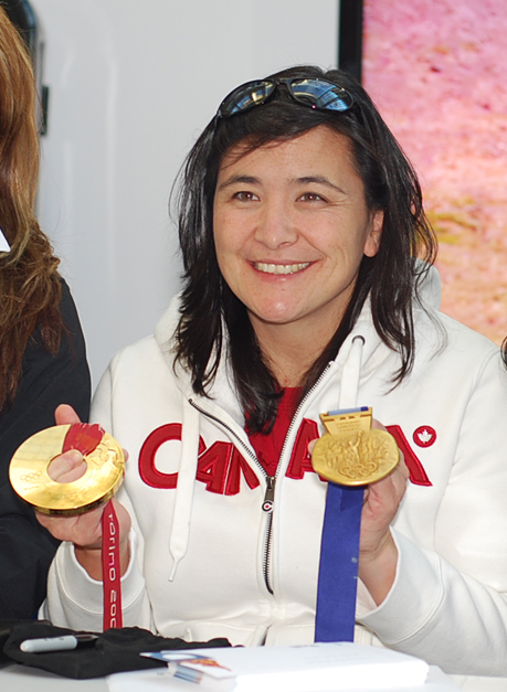 Bell Olympic Panel Discussion, Toronto, Eaton Centre, 2009-11-11